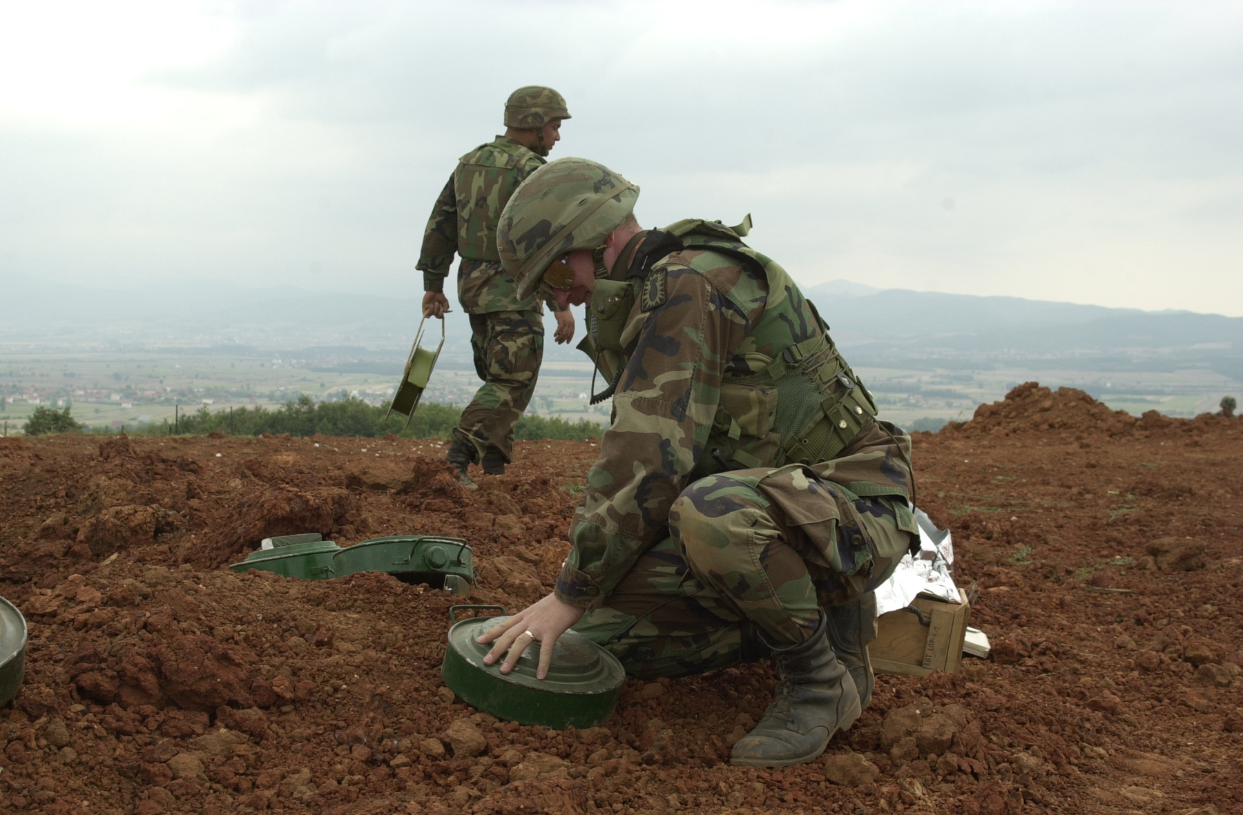 US Soldiers removing landmines.